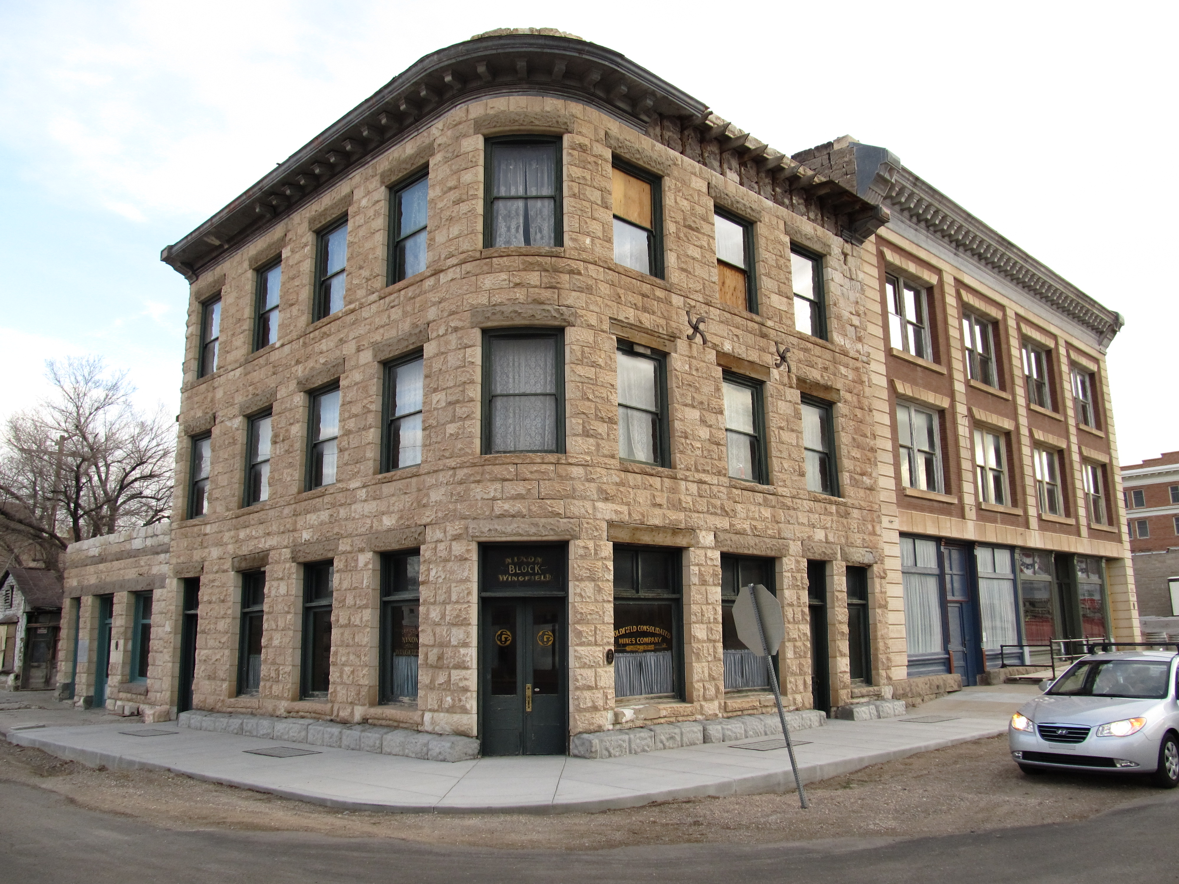 Southern Nevada Consolidated Telephone-Telegraph Company Buildng, Goldfield, Nevada